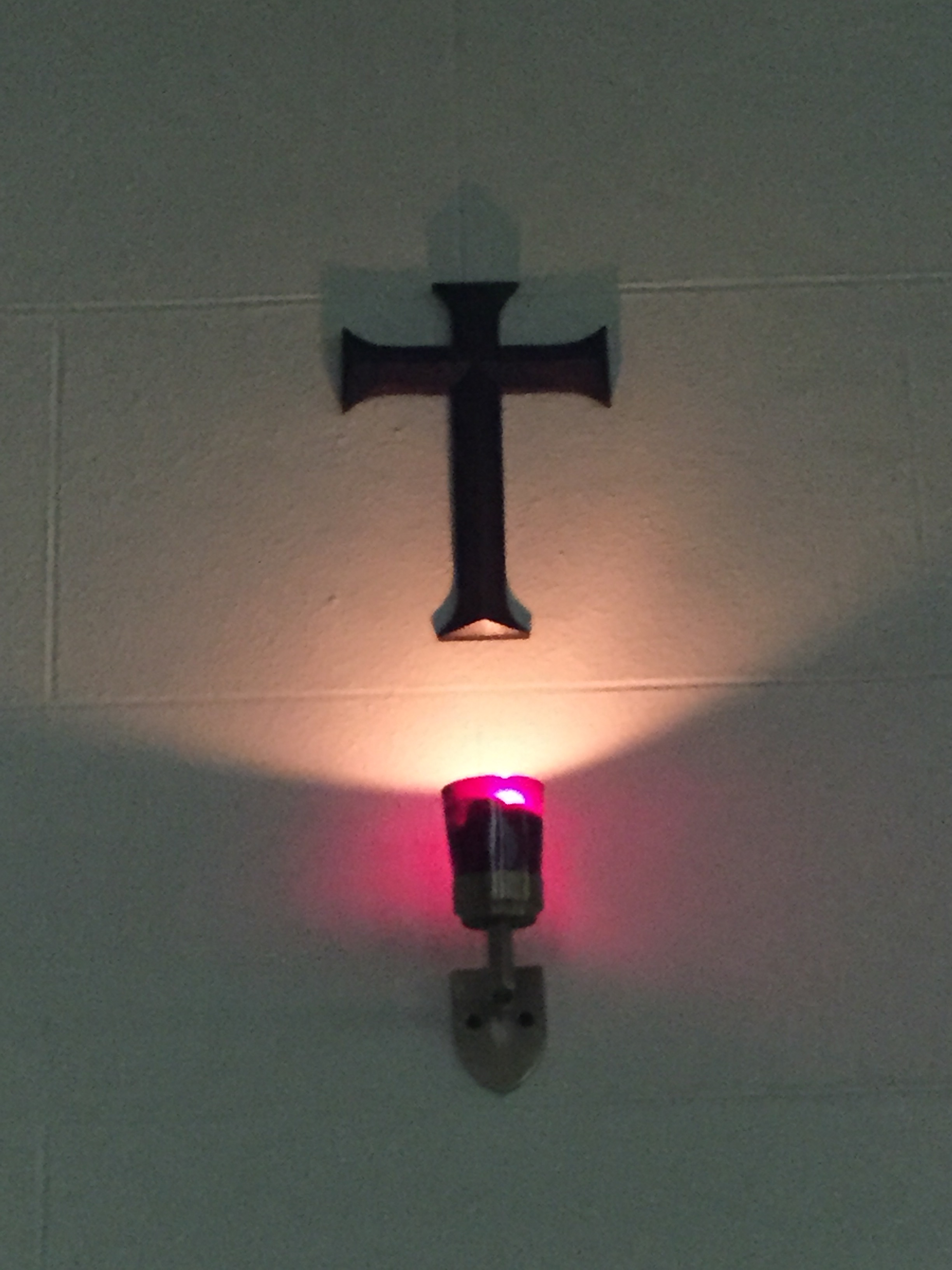 Dedication Cross and Candle in St George's Church Ottawa